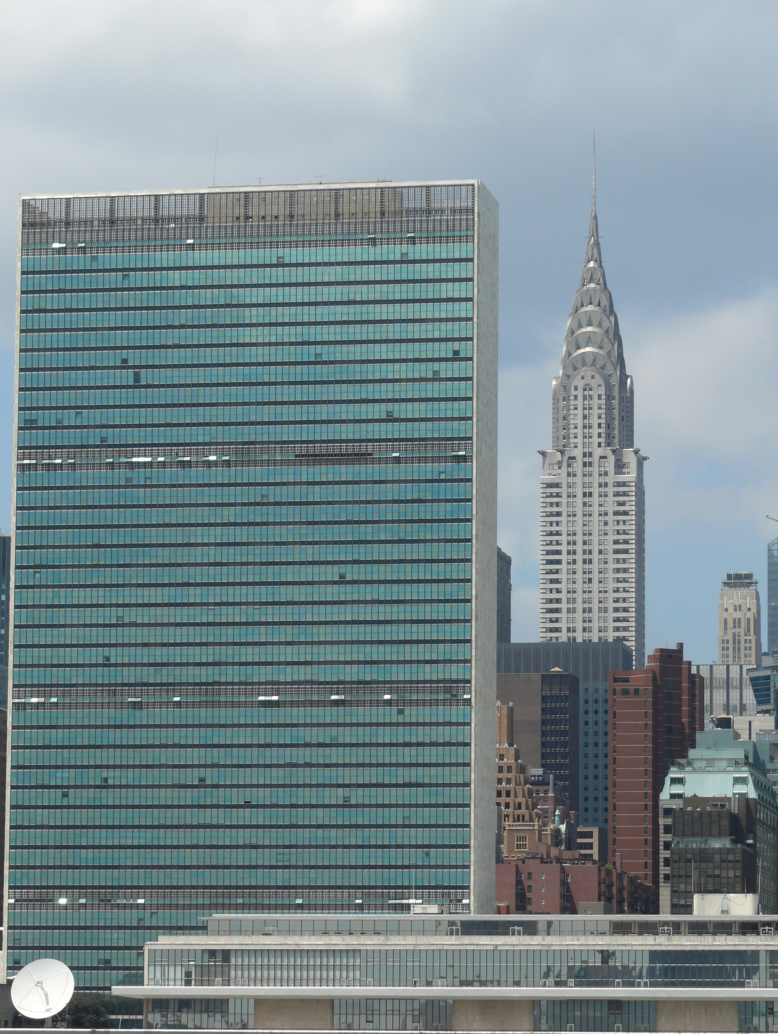 United Nations Headquarters and the Chrysler Building as seen from the East River. The United Nations Headquarters is a distinctive complex in New York City that has served as the official headquarters of the United Nations since its completion in 1950. The Chrysler Building is an Art Deco skyscraper in New York City, located on the east side of Manhattan in the Turtle Bay area at the intersection of 42nd Street and Lexington Avenue.